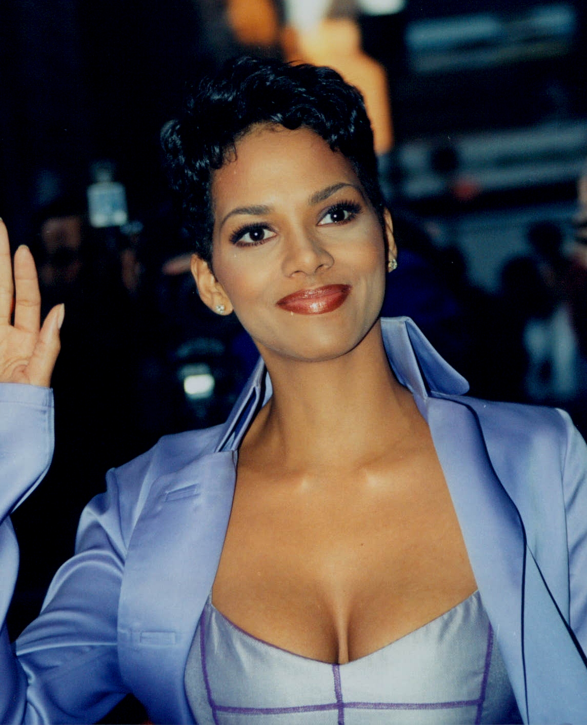 From N.Y.C. madison square garden " Essence awards " 1997 © copyright John Mathew Smith 2001